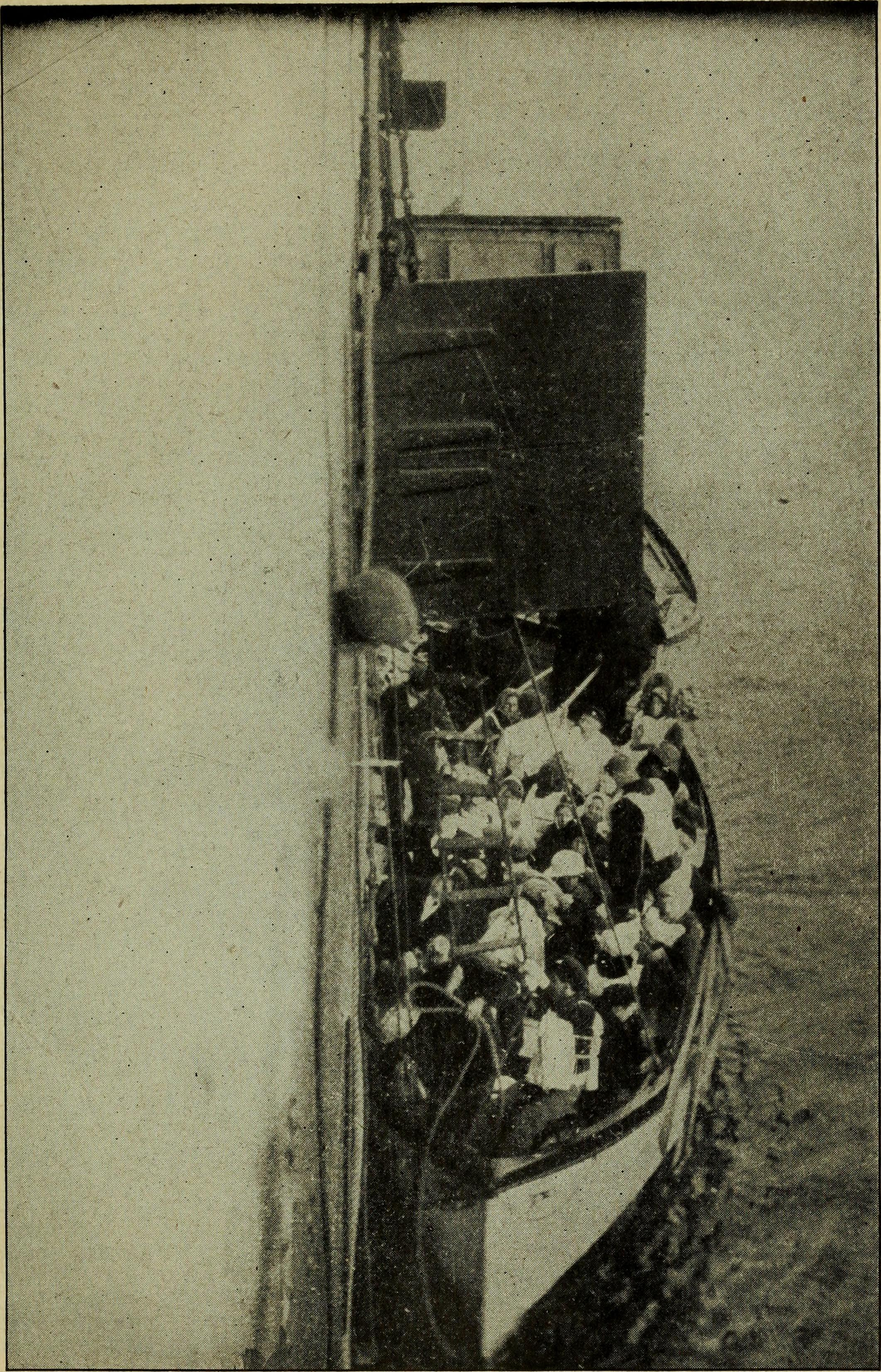 Boat number 12 of Titanic, in morning of the 15 april 1912 Original title: Wreck and sinking of the Titanic : the ocean's greatest disaster : a graphic and thrilling account of the sinking of the greatest floating palace ever built, carrying down to watery graves more than 1,500 souls : giving exciting excape from death and acts of heroism not equalled in ancient or modern times, told by the survivors ; edited by Marshall Everett Year: 1912 (1910s) Authors: Everett, Marshall Subjects: Titanic (Steamship) Shipwrecks Publisher: (S.l. : L.H. Walter) Text Appearing Before Image: at held her place even thoughshe were a maid or the wife of a Hungarian peasant.Many women clung to their husbands and refused tobe separated. In some cases they dragged their hus-bands to the boats and in the confusion the men foundplaces in the boats. Before there was any indication of panic, Henry B.Harris, a theatrical manager of New York, steppedinto a boat at the side of his wife before it was lowered. Women first! shouted one of the ships officers.Mr. Harris glanced up and saw that the remark wasaddressed to him. All right, he replied, coolly. Gk)odby, my dear, he said, as he kissed his wife,pressed her a moment to his breast and then climbedback to the Titanics deck. FLEET DREW AWAY One by one the little fleet drew away from the tower-ing sides of the giant steamship, whose decks werealready reeling as it sank lower in the water. The Titanic is doomed! was the verdict that passedfrom lip to lip. We will sink before help can come! Water poured into every compartment of the 800- Text Appearing After Image: Photo Underwood & Undftrwond. N. T HOISTING TITANIC LIFEBOAT FILLED WITH RESCUEDABOARD THE CARPATHIA